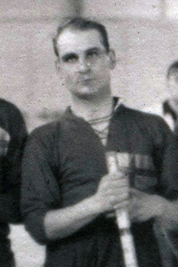 Seth Howander with the swedish national ice hockey team at the 1920 Summer Olympics in Antwerp, Belgium. The picture is a crop out of a larger team photo taken inside the ice rink Palais de Glace d'Anvers. The ice hockey tournament at the 1920 Summer Olympics took place between April 23 and April 29.